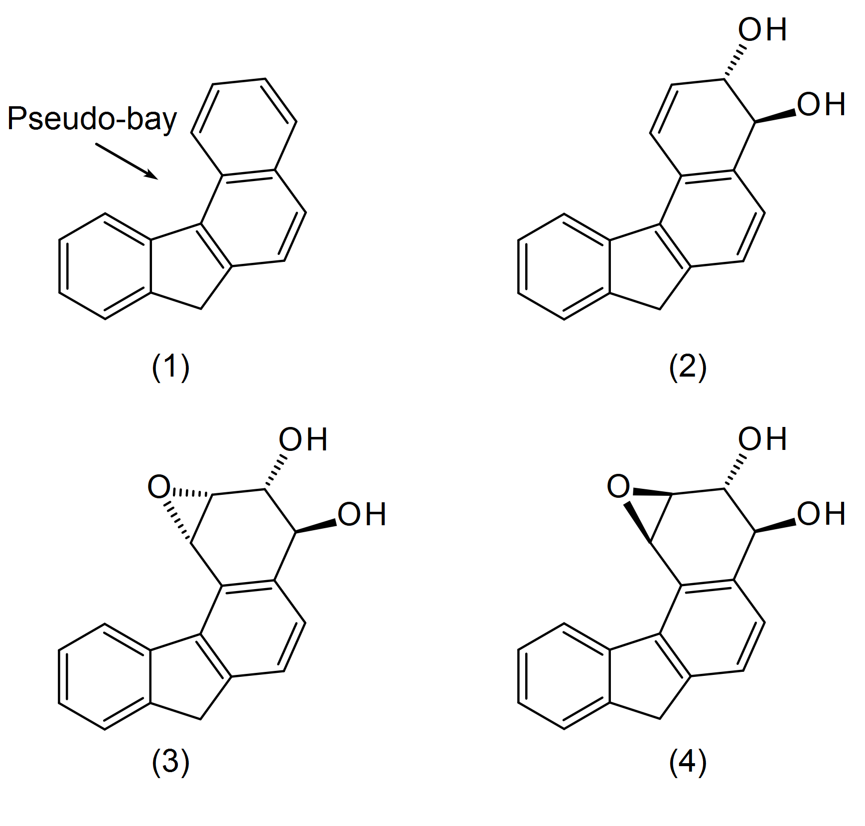 Shows the possible metabolites in the body after benzo(c)fluorene (1) is metabolised